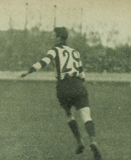 Photograph of Charles Wall in 1922